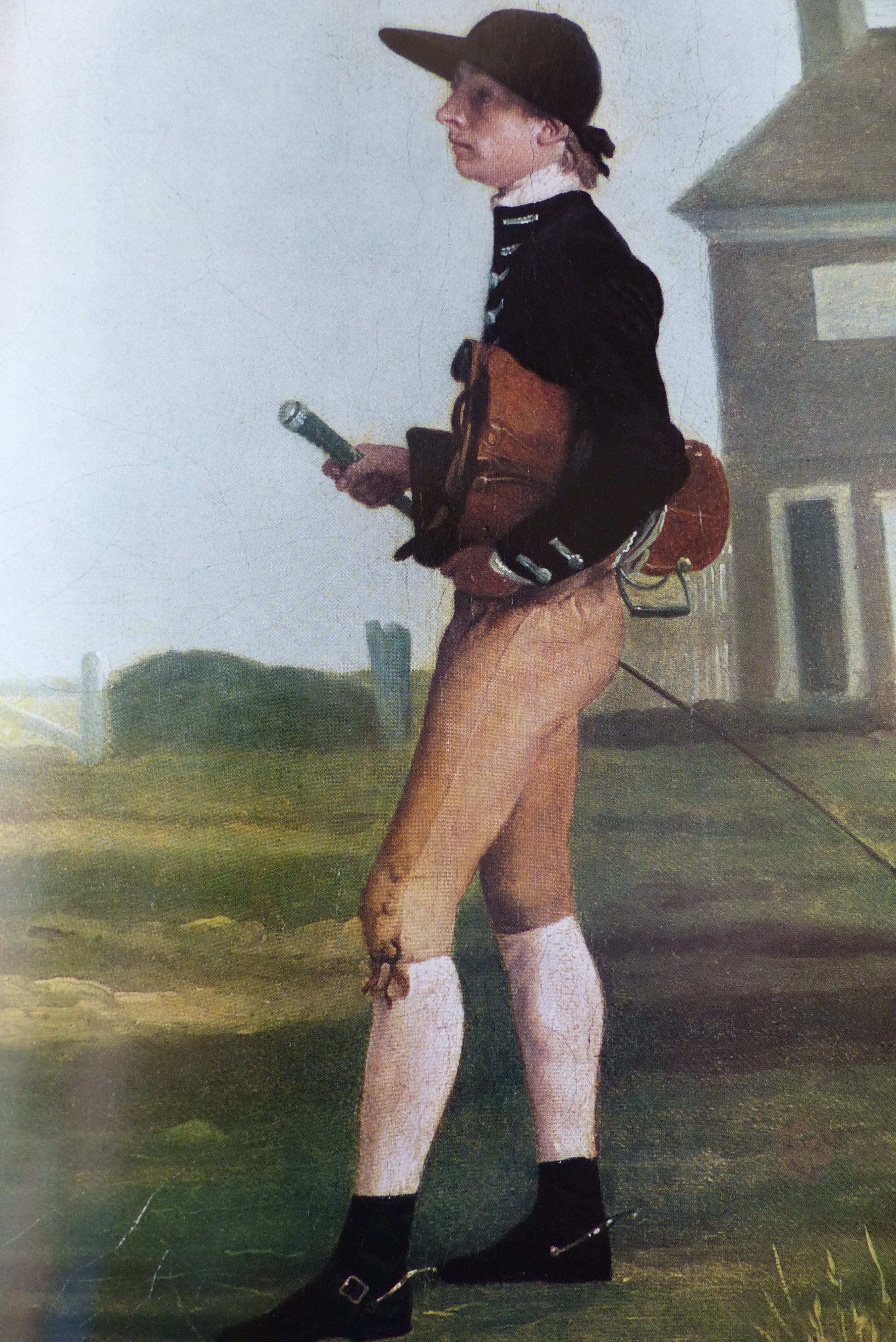 George Stubbs, Gimcrack On Newmarket Heath, with a Trainer, a Stable-lad, and a Jockey, detail